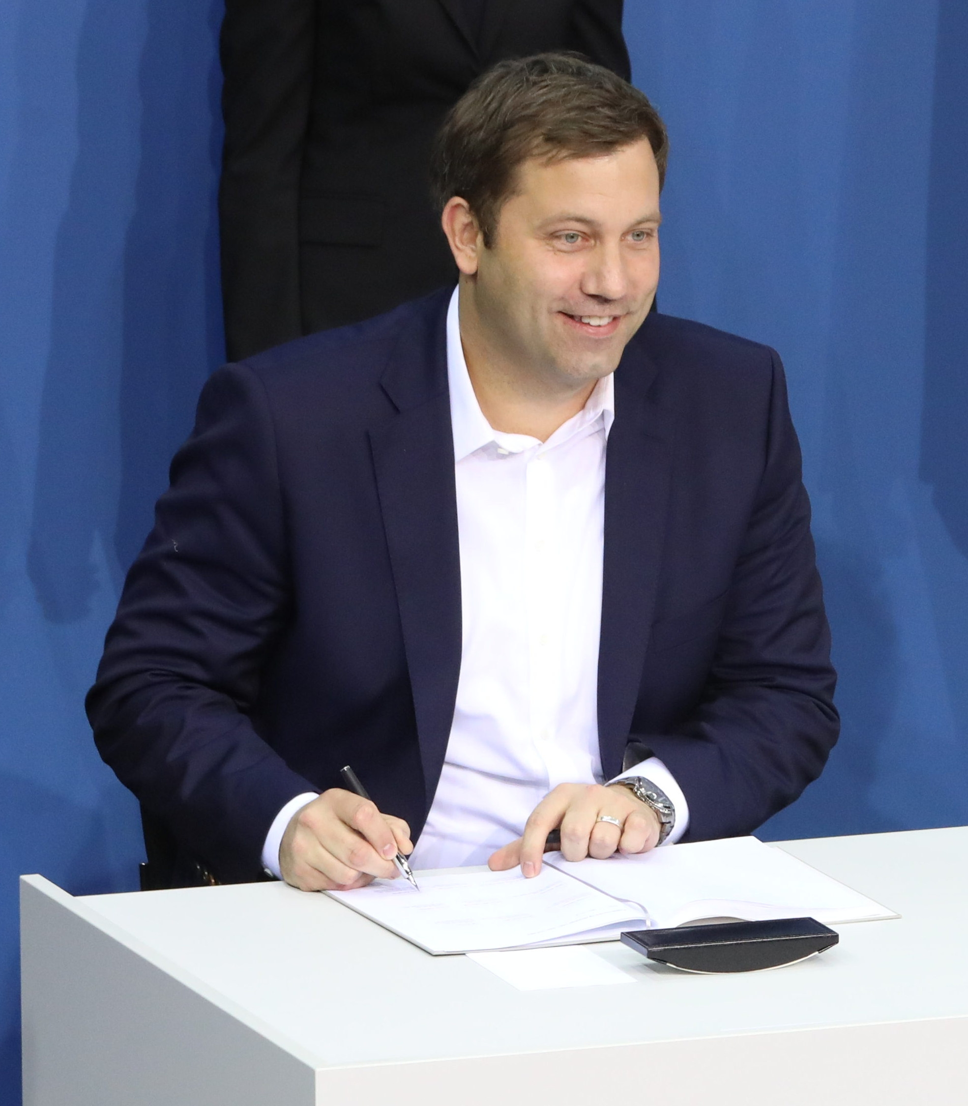 Signing of the coalition agreement for the 19th election period of the Bundestag: Lars Klingbeil